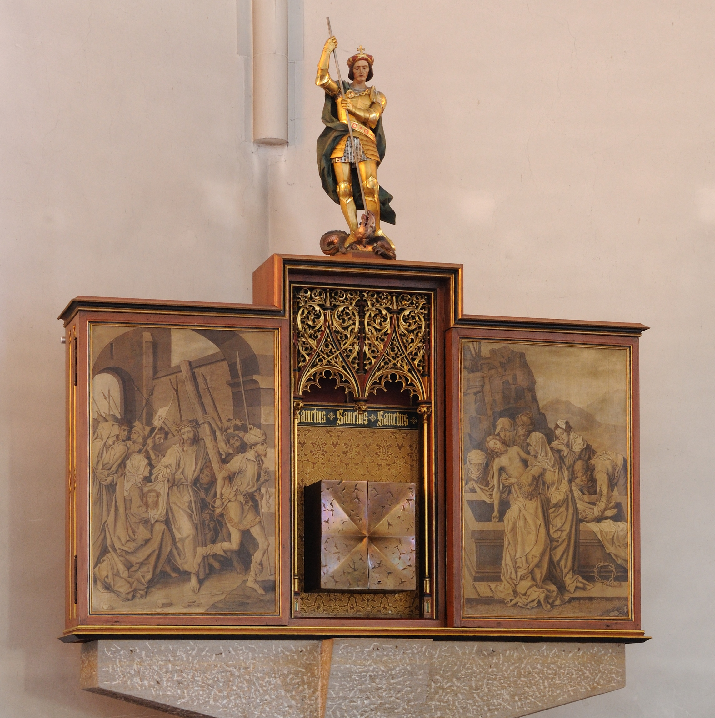 Grenzach-Wyhlen: winged altar at Saint Georgs church (during lent closed)